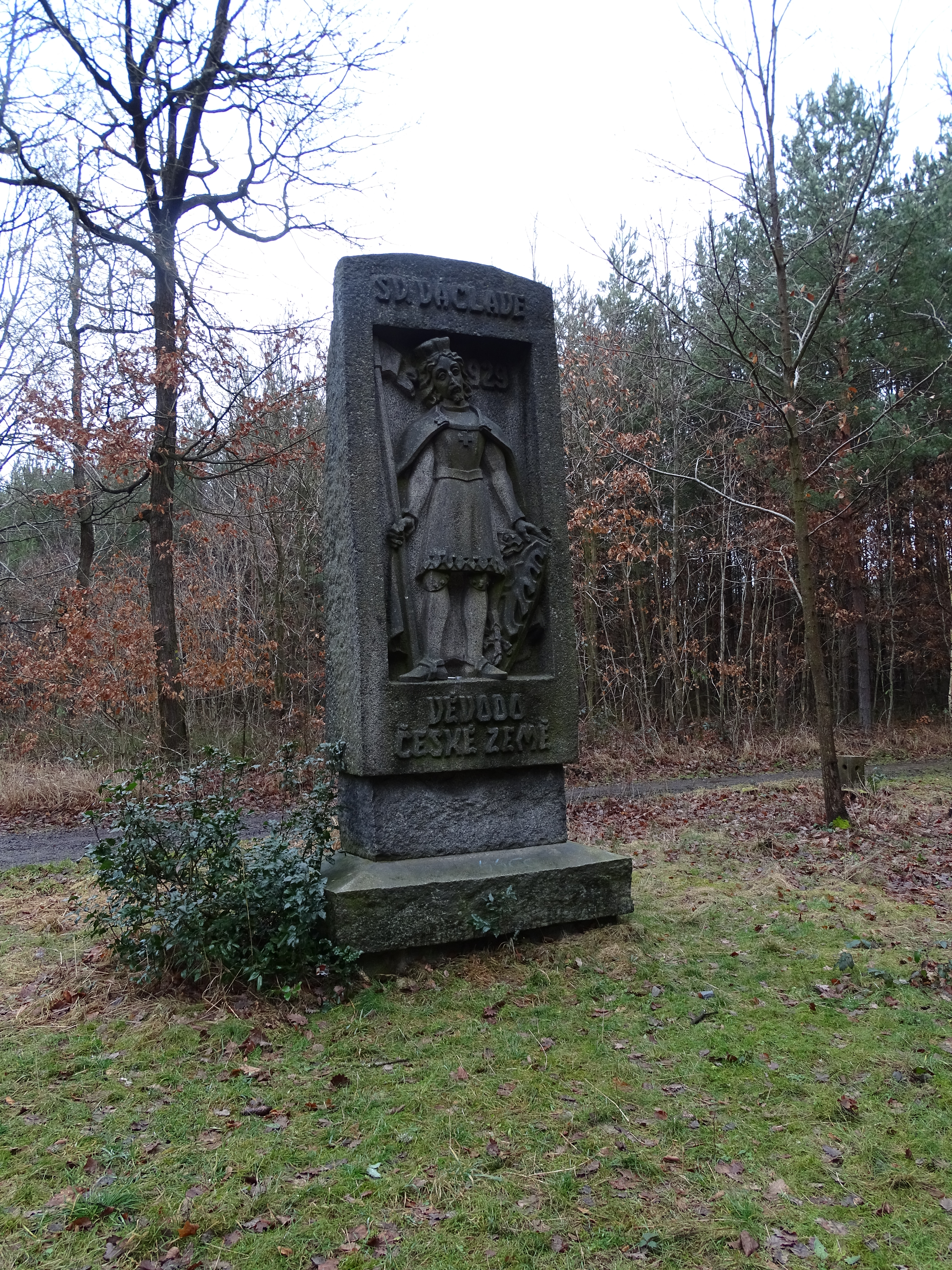 Saint Wencesluas. A tripoint of Bojanovice-Senešnice and Zahořany, Prague-West District, Nová Ves pod Pleší, Příbram District, Central Bohemian Region, Czech Republic.